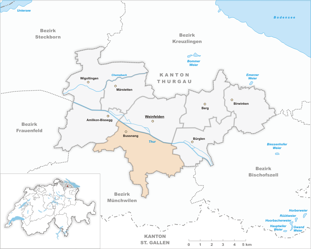 Municipality Bussnang